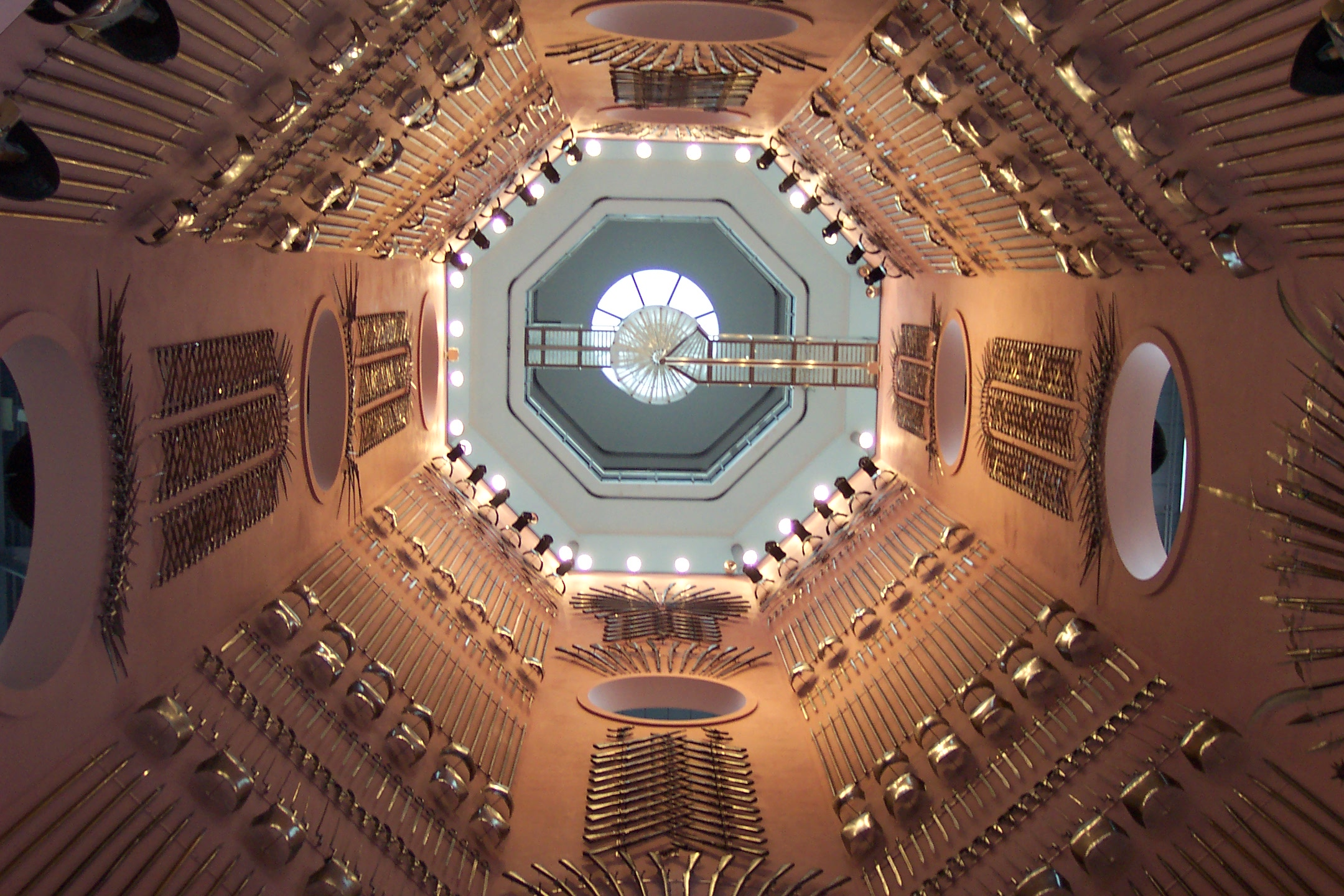 Main stairwell, Royal Armouries Museum, Leeds. Credits I took this picture myself User: Lofty